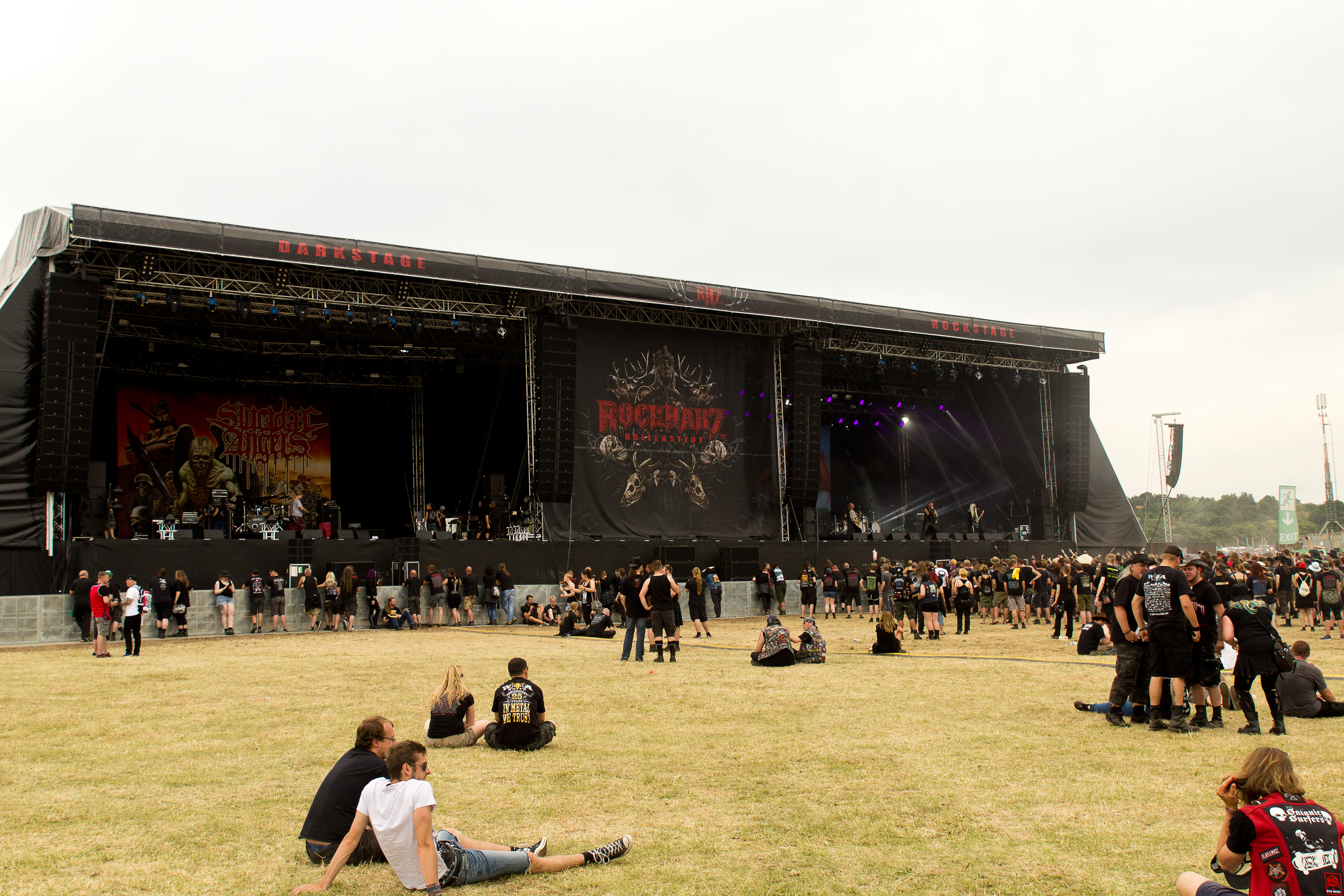 The twin-stages at the Rockharz Open Air 2016 in Ballenstedt/Germany.